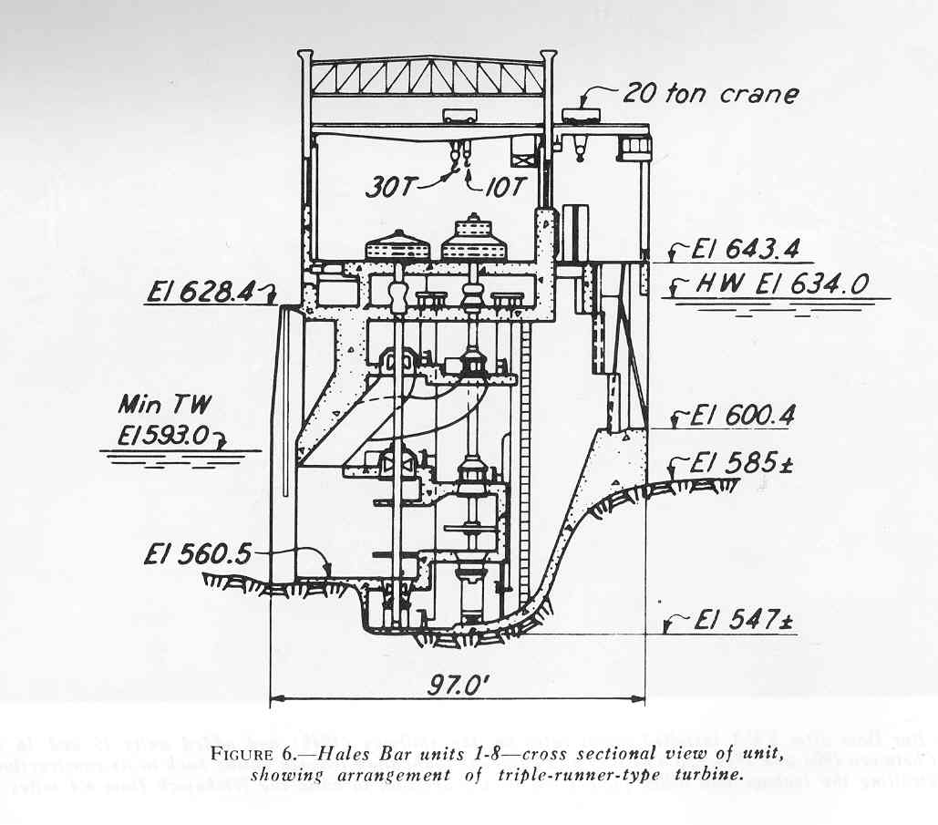 Cross-section of a turbine at Hales Bar Dam, which was located on the Tennessee River in the southeastern United States. The dam, built by the Chattanooga and Tennessee River Power Company in 1913, originally housed eight of these turbines.